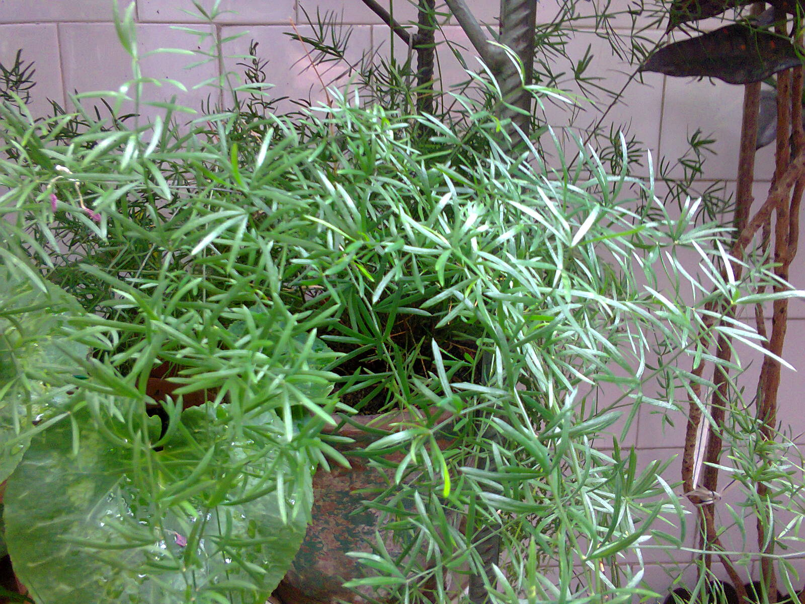 Asparagus adscendens in Kolozsvár, Transylvania.